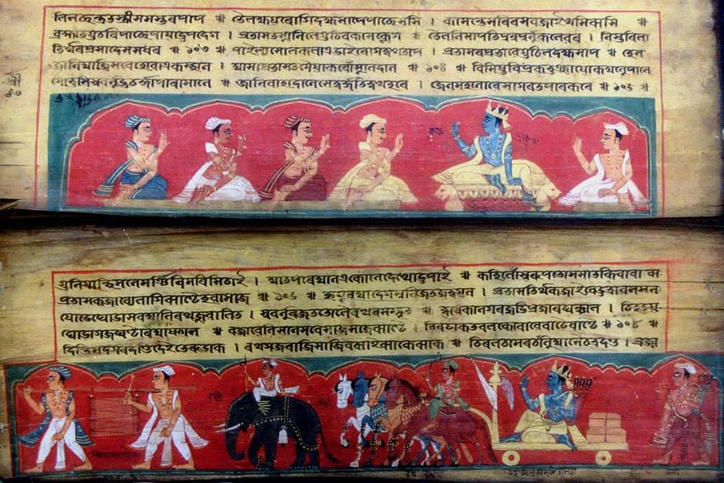 This is an illustrated manuscript of Bhagavata from Dakhinpat Sattra, written in Early Assamese in Kaitheli Assamese script.